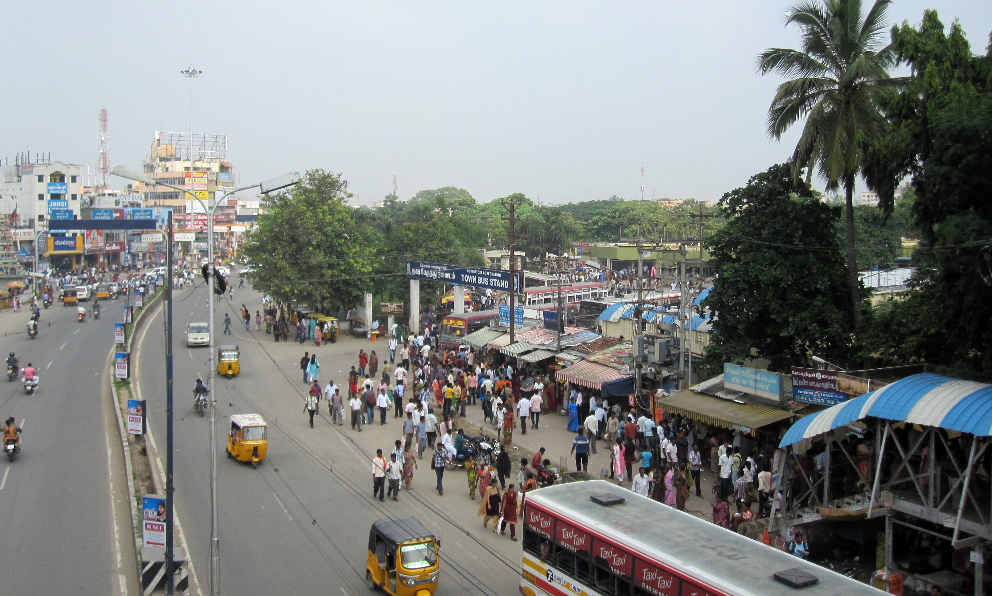 Coimbatore Town Busstand, Gandhipuram. View from the pedestrian overbridge over nanjappa road